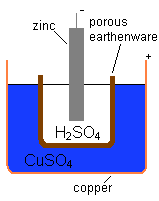 Made this myself in MS Paint. Diagram of a Daniell cell